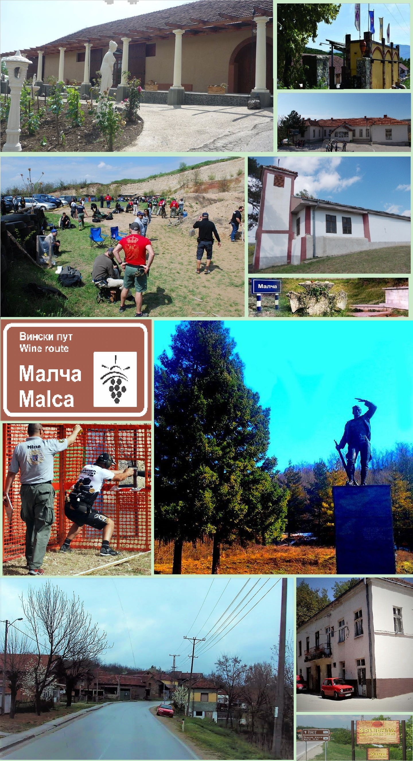 malča near niš, serbia